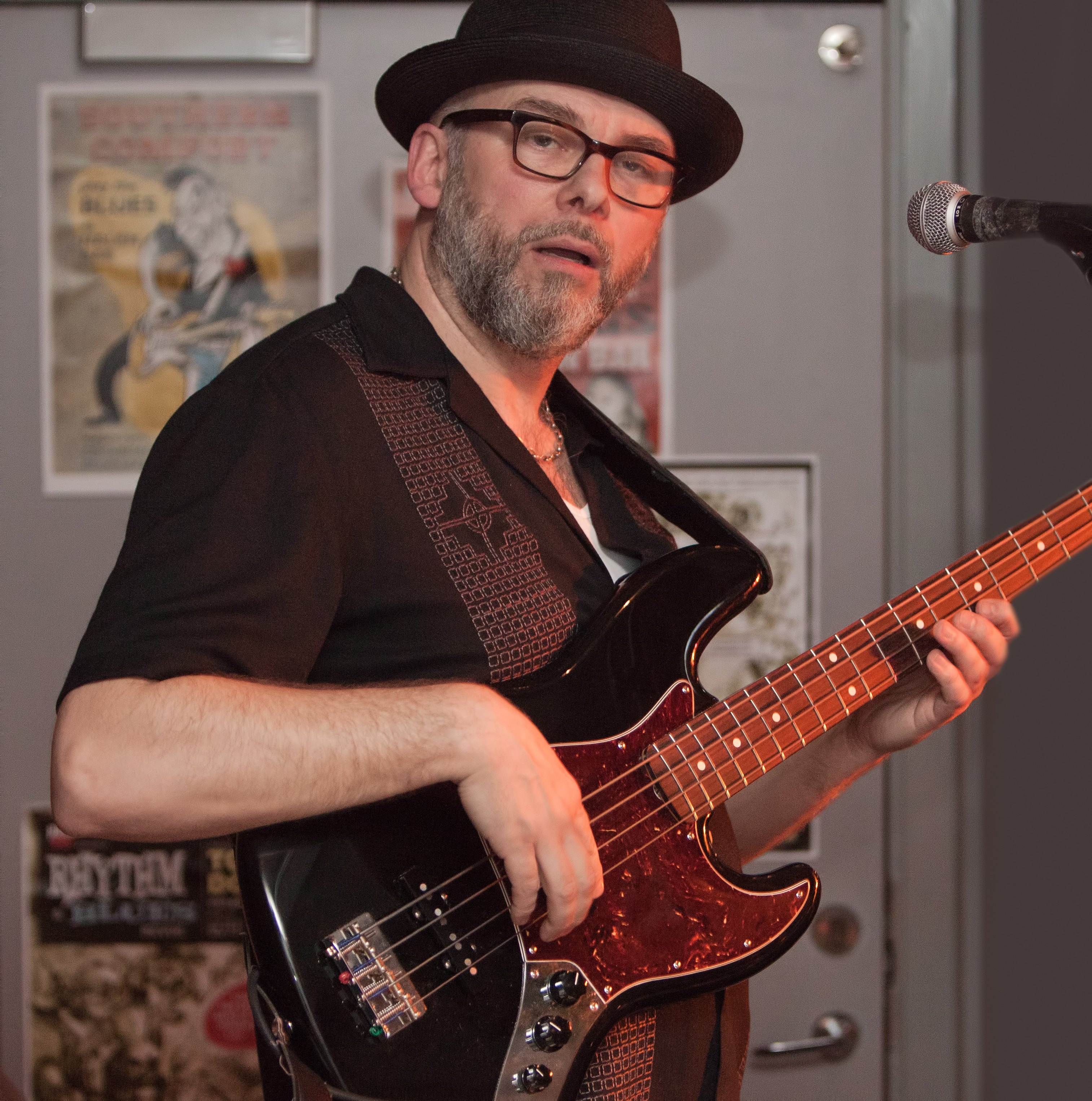 Patrik Norrman playing bass guitar in the band Top Dogs at Nalen, Stockholm